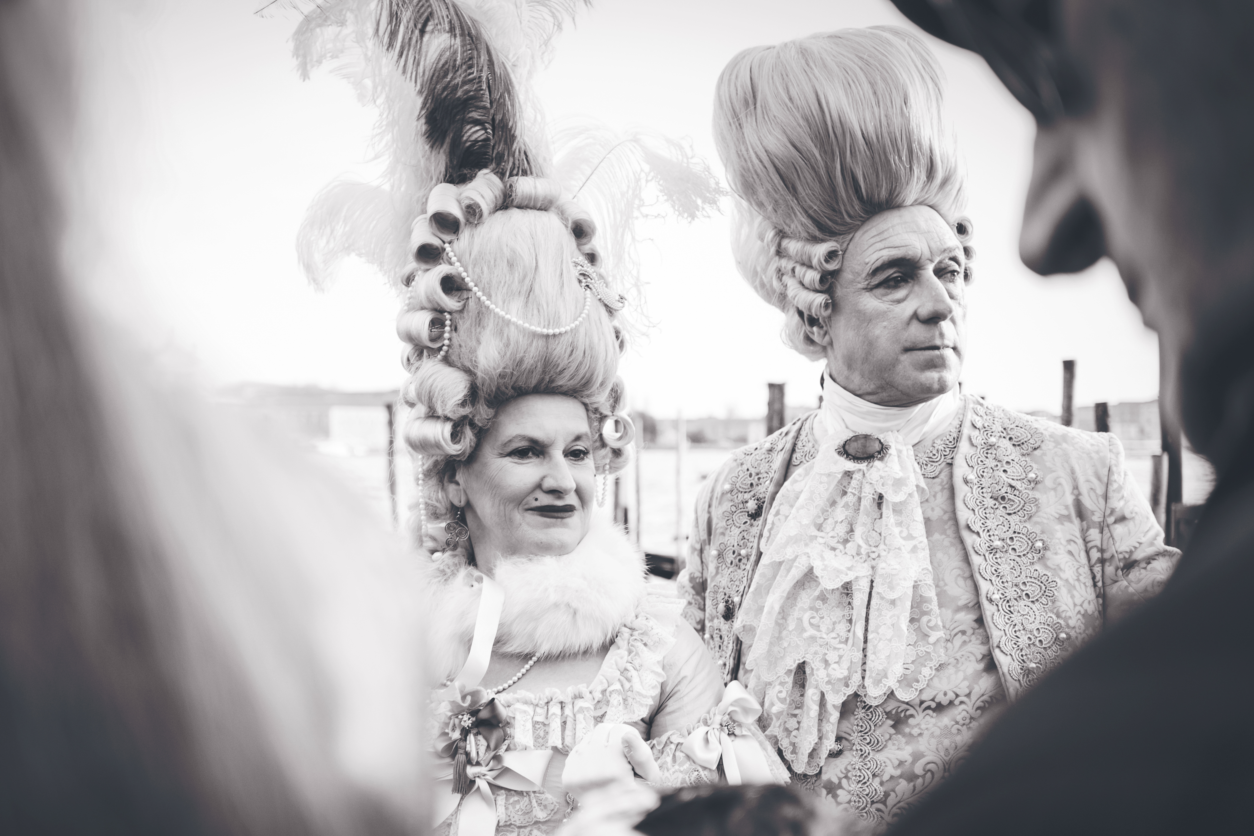 San Marco, Venice, Italy